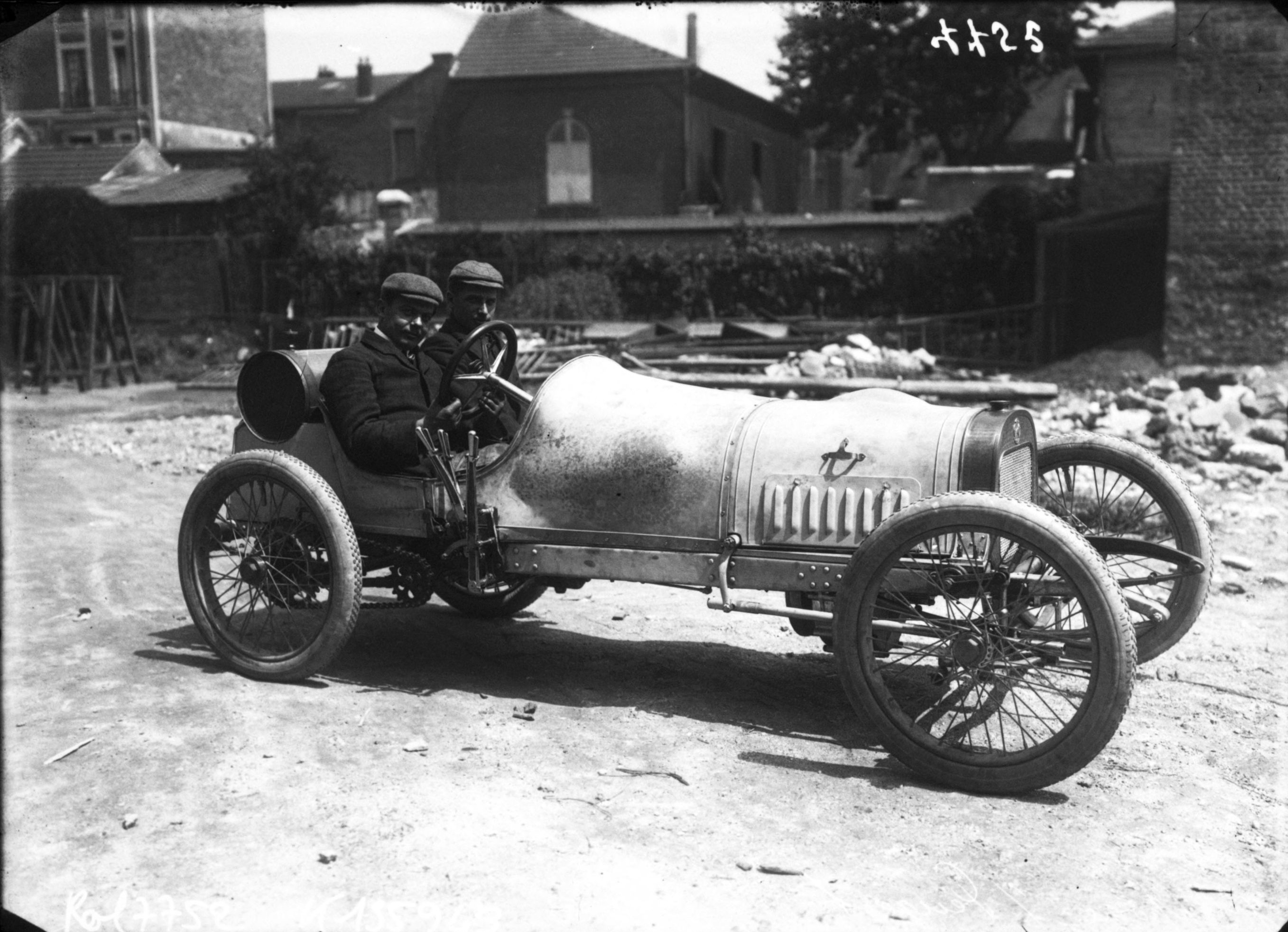 Giosue Guippone in his Lion-Peugeot at the 1908 Grand Prix des Voiturettes at Dieppe.